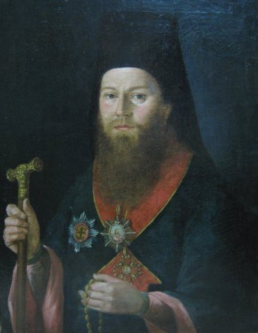 Episkop Evgeniy (Bolkhovitinov)